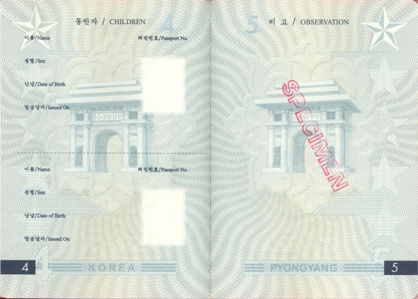 Observations Page of the DPRK Passport For Official Trip (2000 Version)